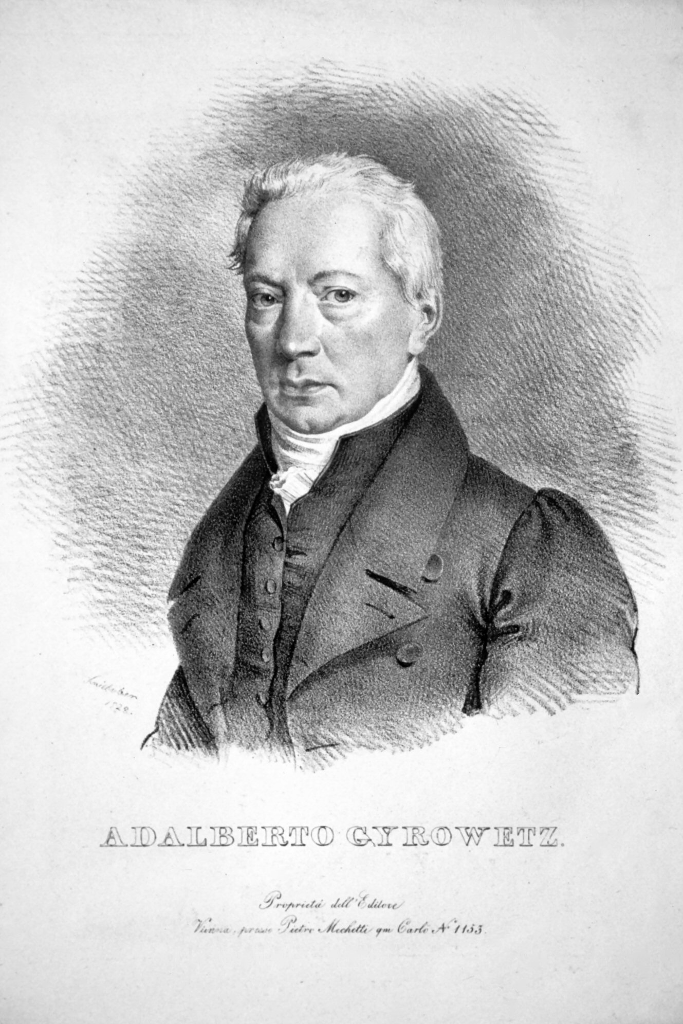 Adalbert Gyrowetz (1763-1850), Composer